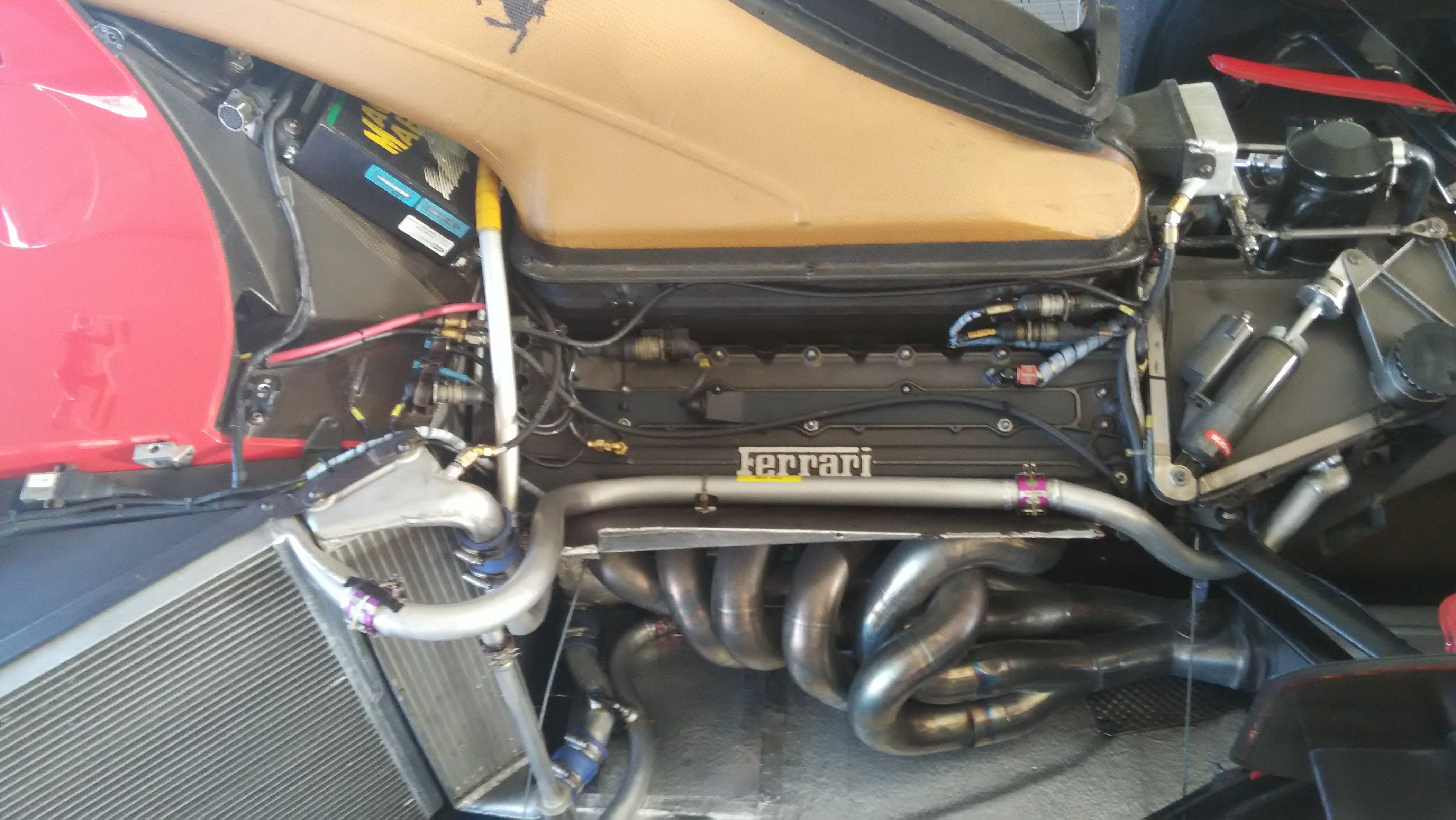 Taken at Adelaide Motorsport Festival